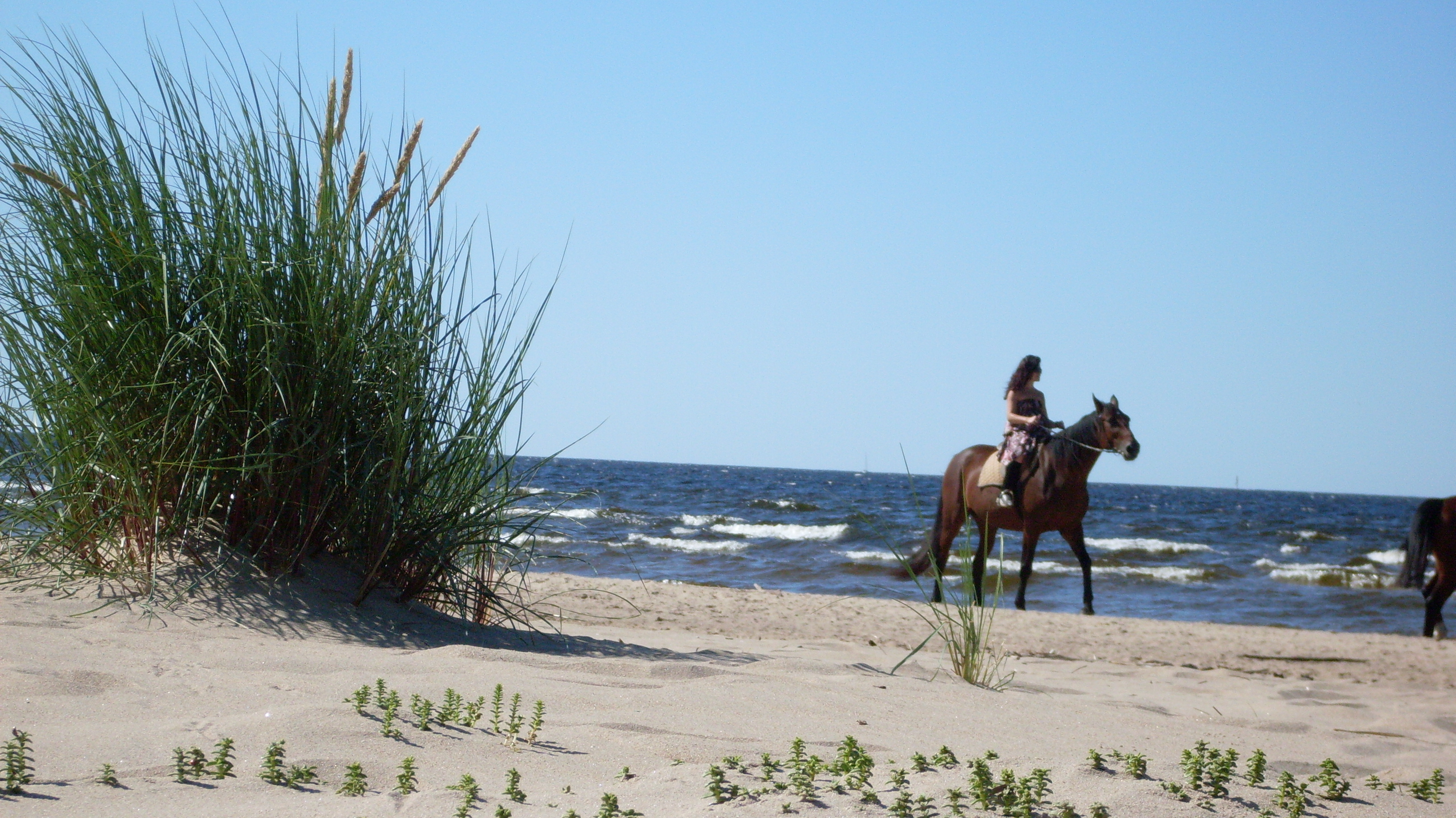 Mangaļsala, Northern District, Riga, LV-1030, Latvia